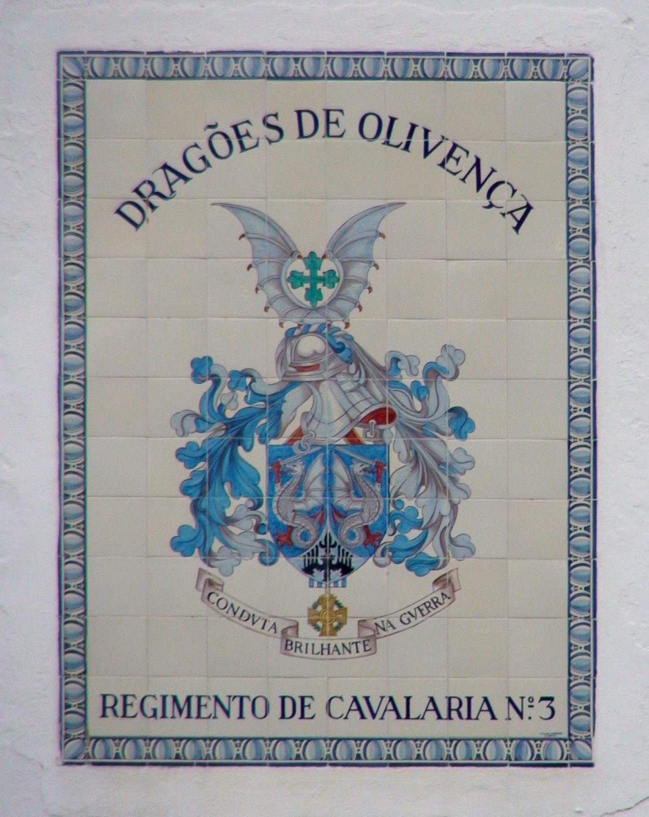 Coat of arms of the Regimento de Cavalaria 3, Dragões de Olivença ("Cavalry Unit 3, Dragons of Olivença"), Estremoz, Portugal.